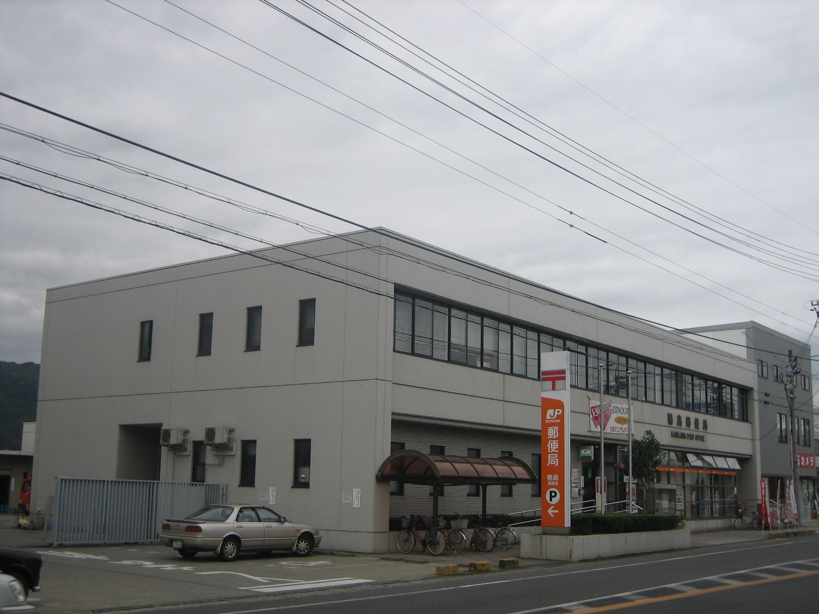 Kamojima post office in Tokushima, Japan